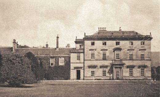 Postcard showing Stoke Hall, Derbyshire, England. (cropped to remove modern digital watermark)